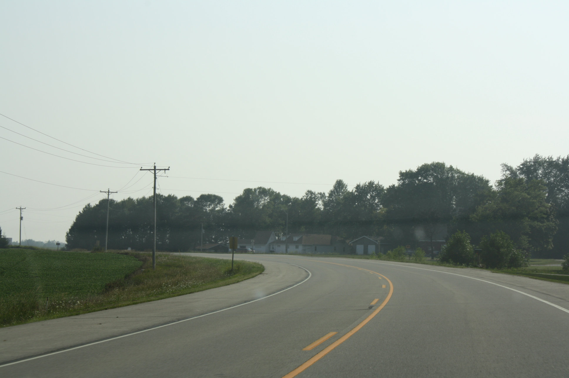 The looking southwest at curve in the unincorporated community of Alaska, Wisconsin on Wisconsin Highway 42.